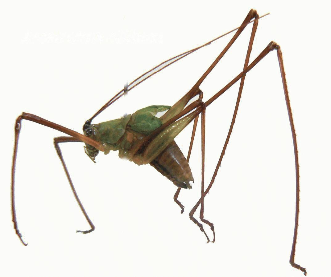 ZooKeys - Arostratum oblitum Cut-out from original (Atlasacris and Arostratum anatomy.jpg) shown below